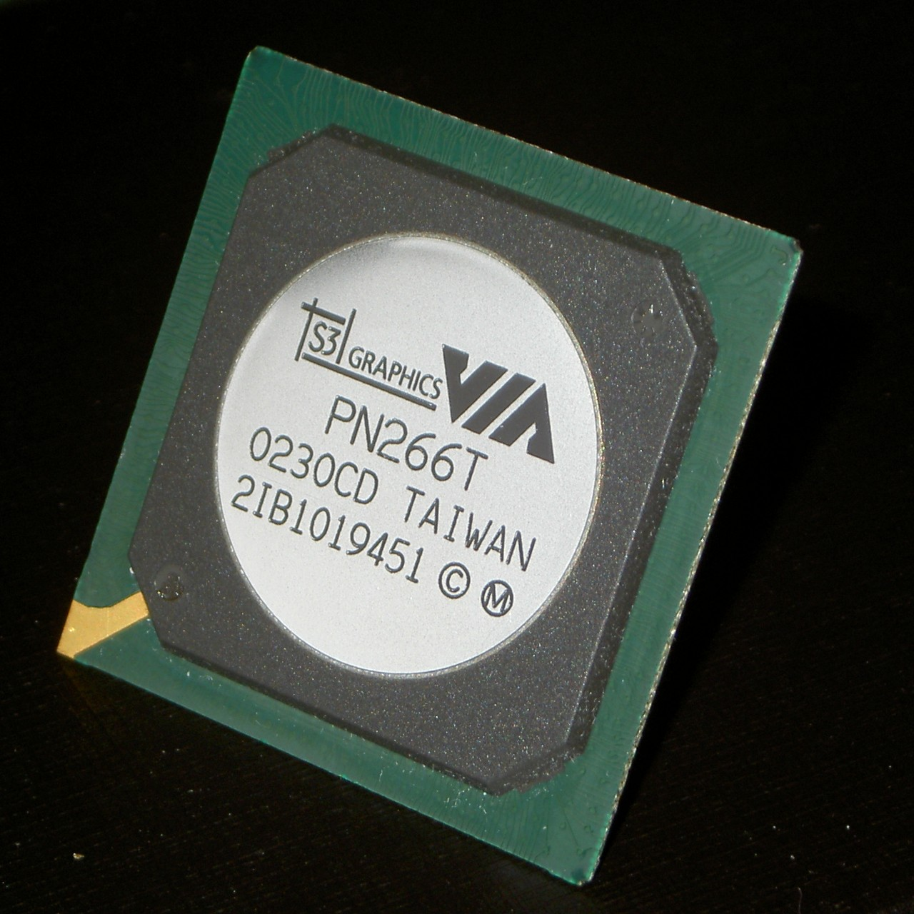 VIA PN266T North Bridge (ProSavage-DDR Integrated)